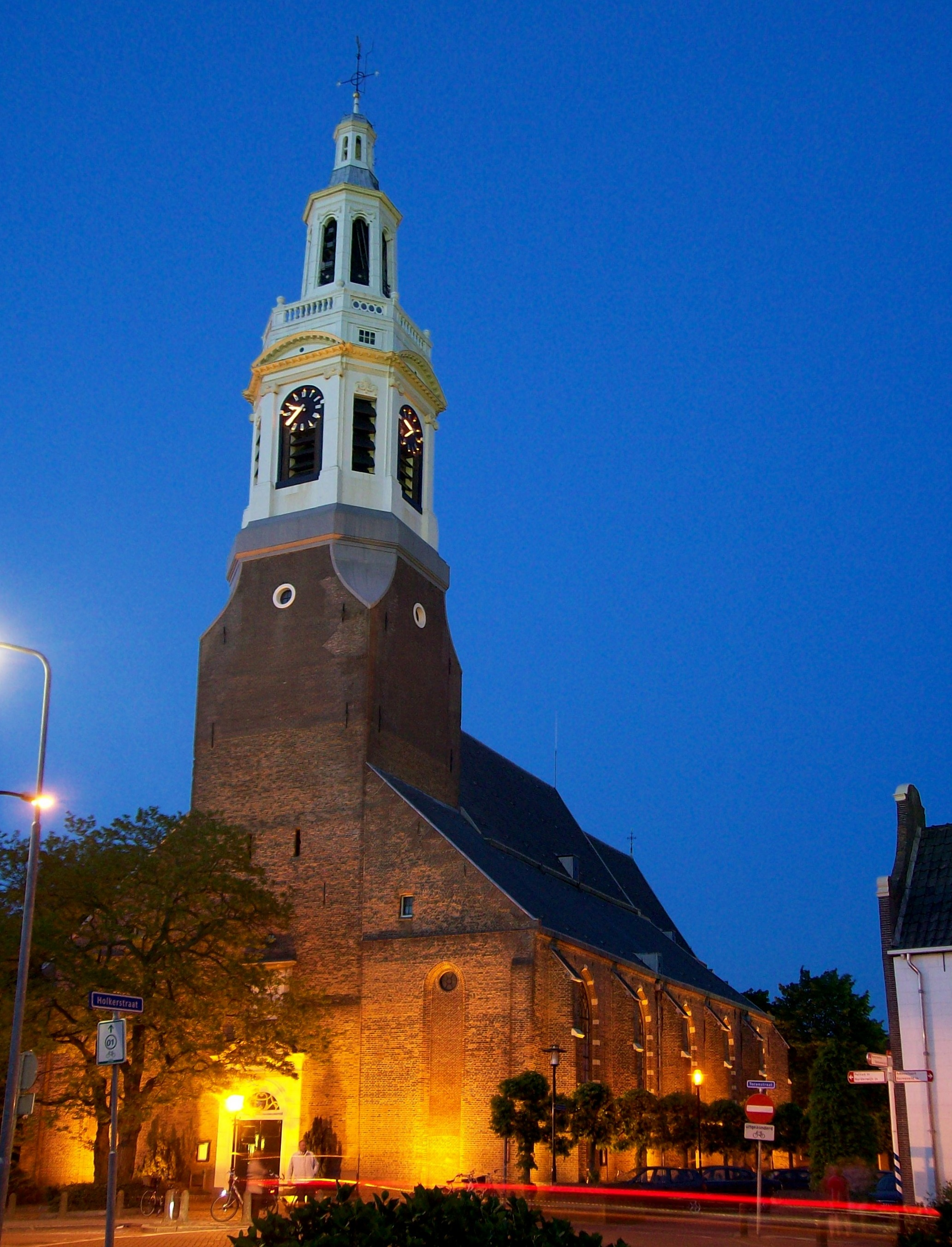 The Great Church at Nijkerk (The Netherlands)